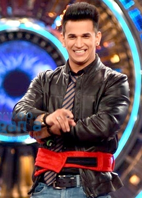 Prince Narula at the launch premiere of Bigg Boss 9